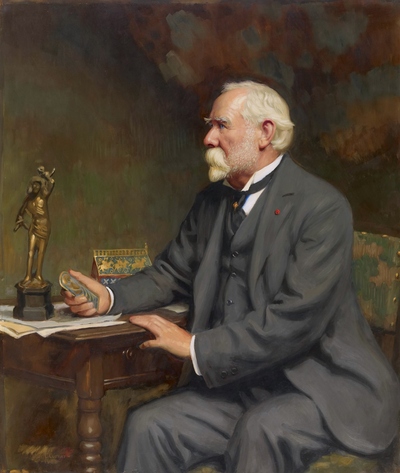 Henry Walters (1848-1931) oil on canvas 116 x 98 cm signed b.l.: Thos C Corner / 1938